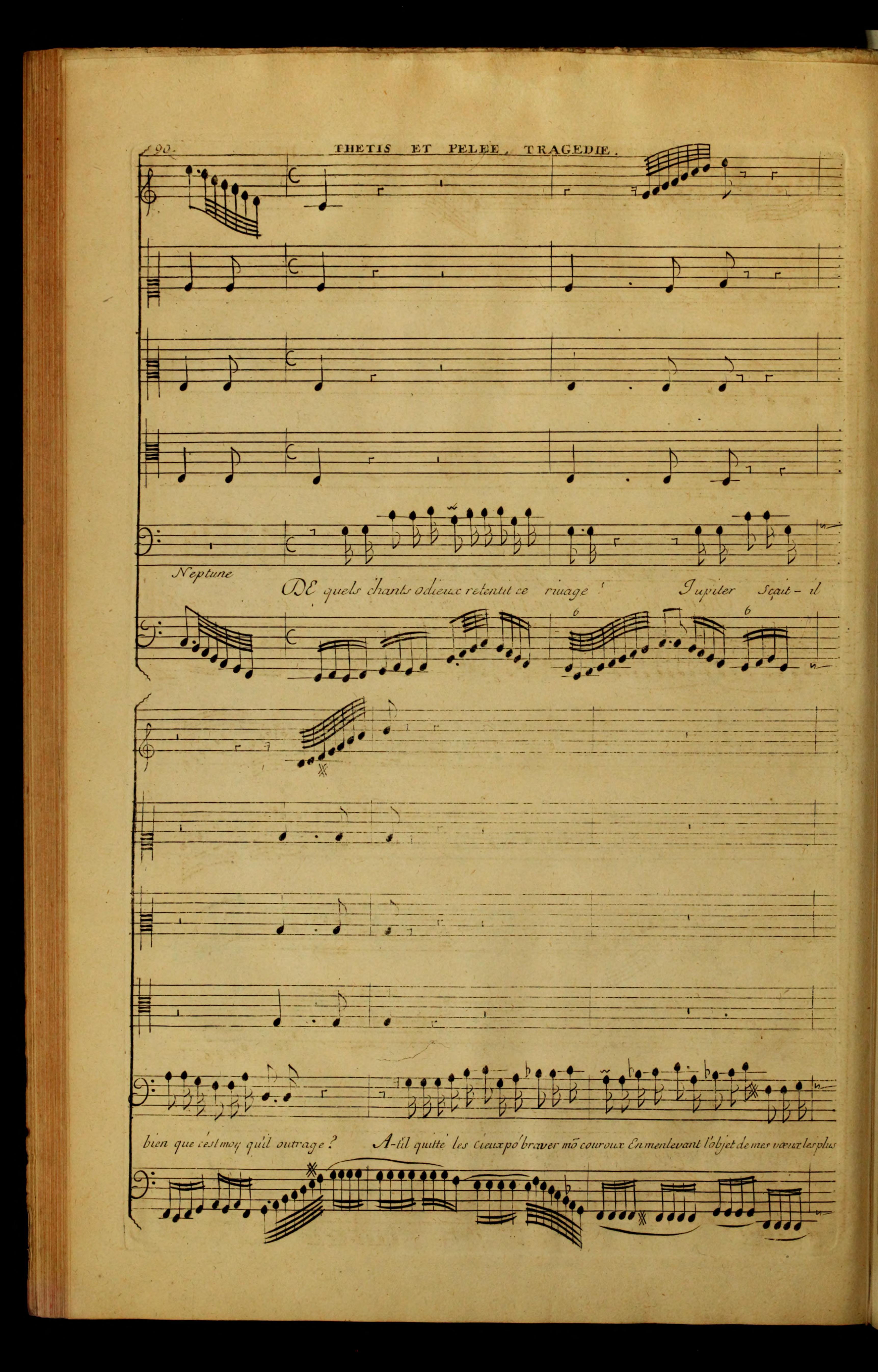 Title: Thétis et Pelée, tragédie, 1 act Year: 1716 (1710s) Authors: Collasse, Pascal, 1649-1709, composer Fontenelle, Bernard Le Bovier de, 1657-1757, librettist Subjects: Operas Publisher: Paris: J. B. Chr. Ballard, no pl. no. Text Appearing Before Image: I e j ». T i f- l^V ^V^/, ^/?^ LJsJc- cnie/j chajiAs ûdi&ujc r&icfittt i e nuaoe ^J uiu/er J~ca.it - 1/ Text Appearing After Image: bien ciue cejlmotf quil outrage . P.PPP %yï-/i/ quitte Us Cieiurpo bretver mo cûiiroiLT ôimenUvant lob/et de mat v&acrUrptus